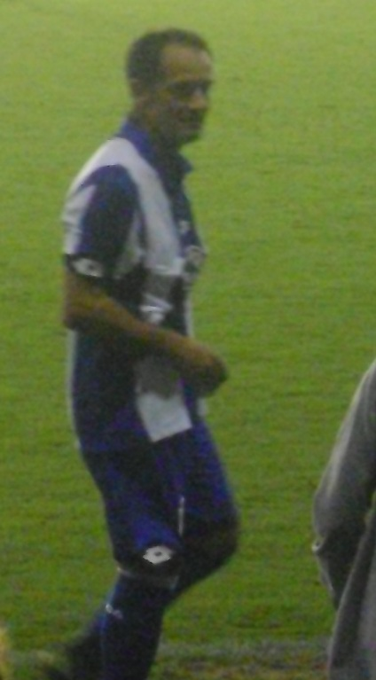 Manjarín